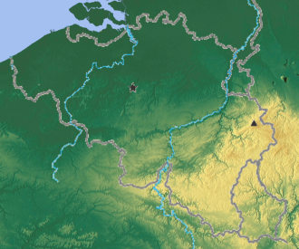 Relief map of Belgium (base map)